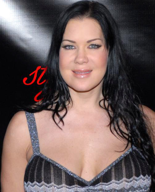 January 8, 2008 - Slim-Fast fashion show